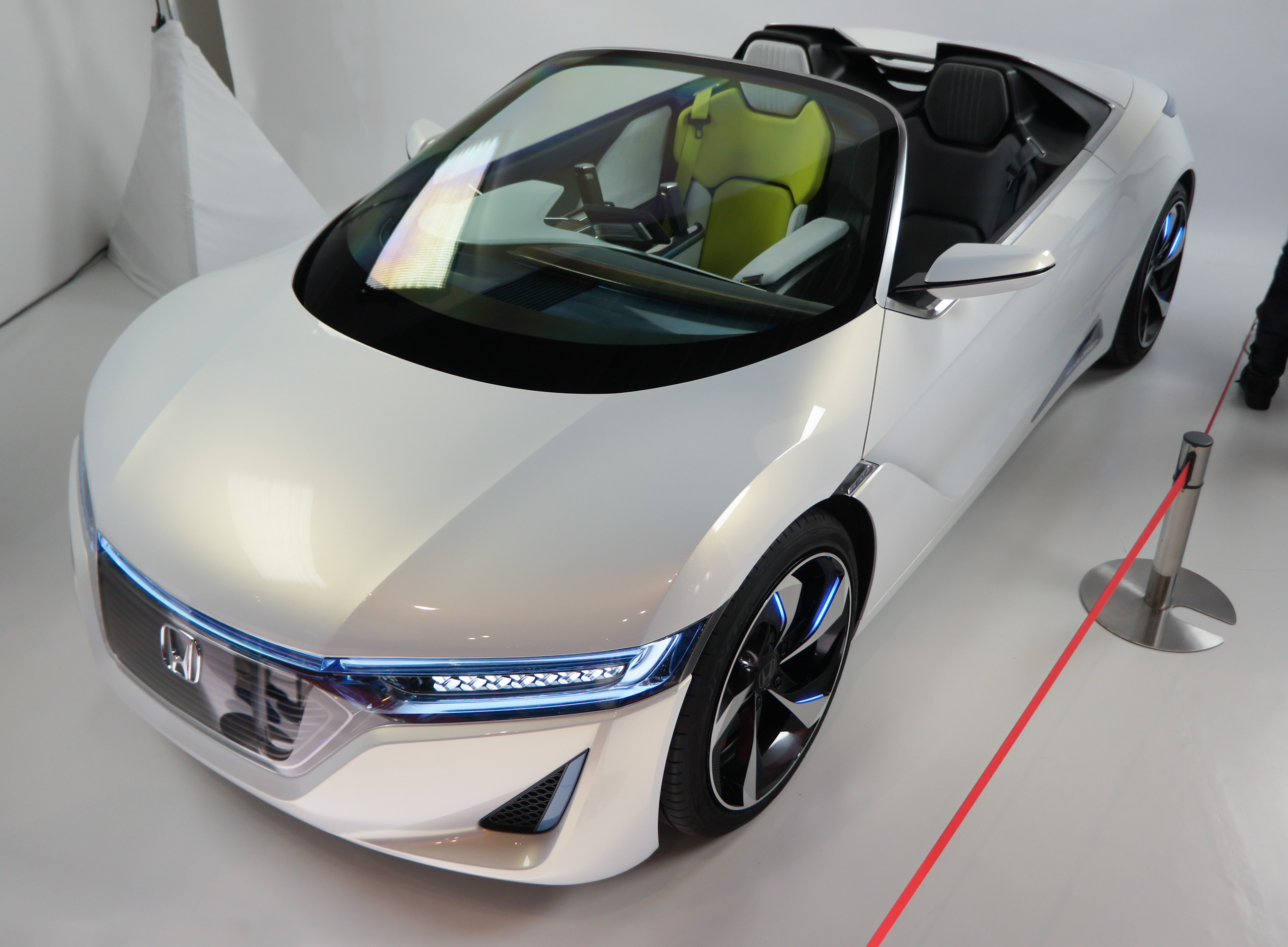 Tokyo Auto Salon 2012: Honda EV-STER